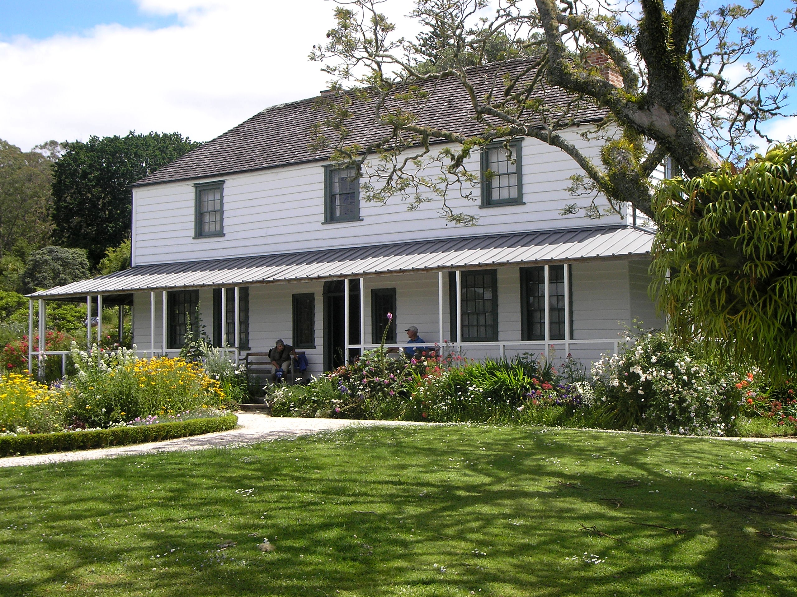 Kerikeri Mission House, also known as Kemp House, in Kerikeri, New Zealand. New Zealand Historic Places Trust Register number: 2. Photographed by author 2006.